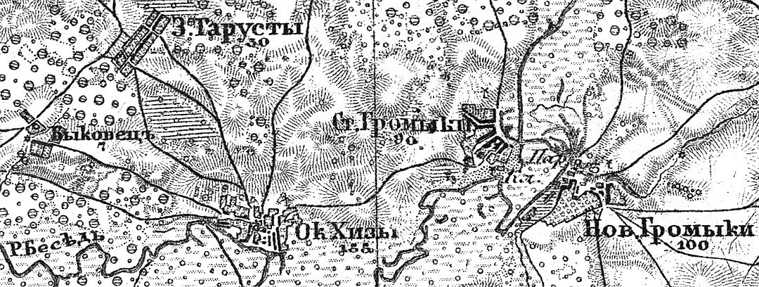 Chizy on the map of Schubert in 1869